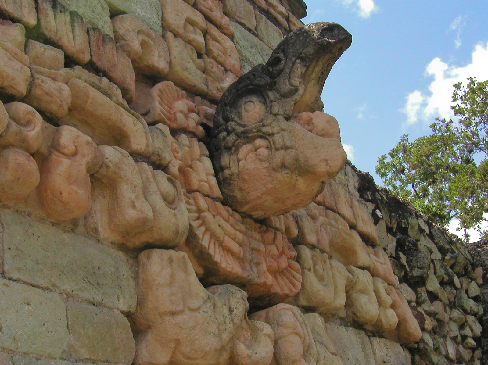 Macaw head sculpture from Ballcourt A-III at Maya site of Copan (Honduras)